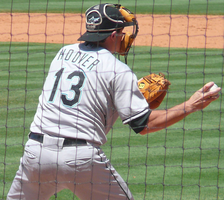 Please attribute photo with author's name if used somewhere other than Wikipedia. 18:45, 4 August 2008 . . Chrisjnelson . . 728×650 (451 KB)